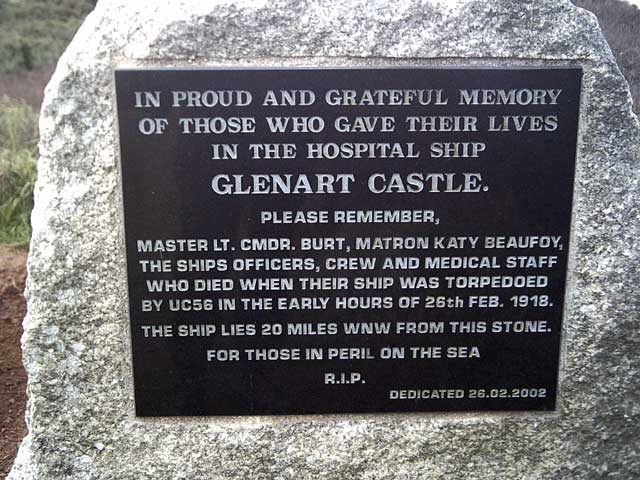 War Memorial, Blagdon Cliff. In proud and grateful memory of those who gave their lives in the hospital ship Glenart Castle, 26th Feb 1918